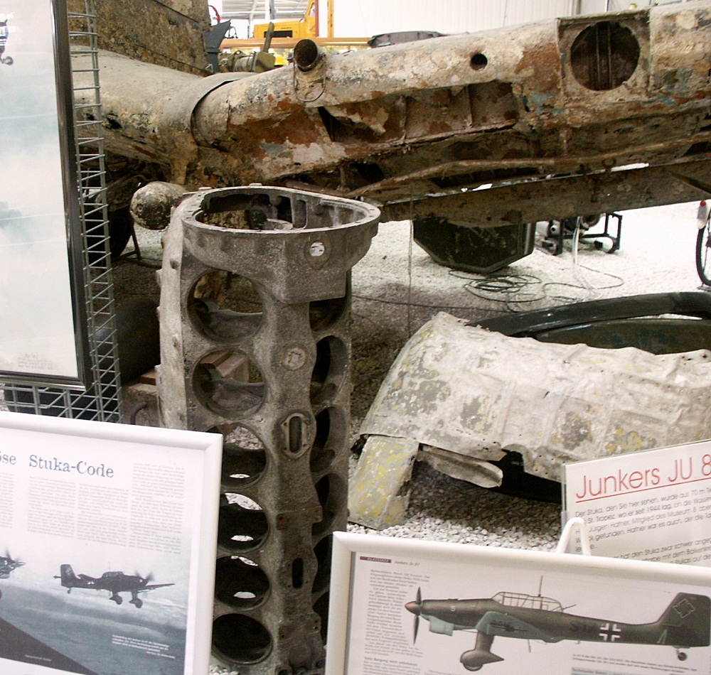 one half of twin V 12 engine block and wing detail of salvaged Stuka